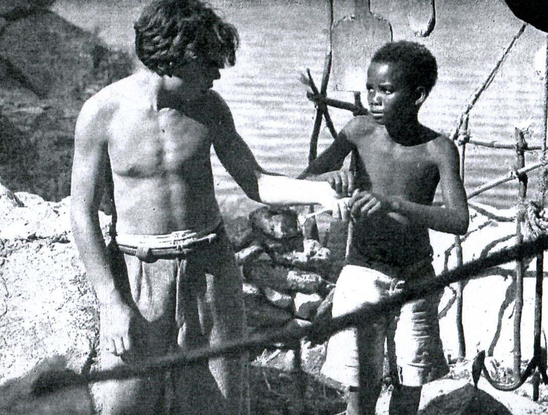 piccoli naufraghi Calzavara 1938 - foto scena